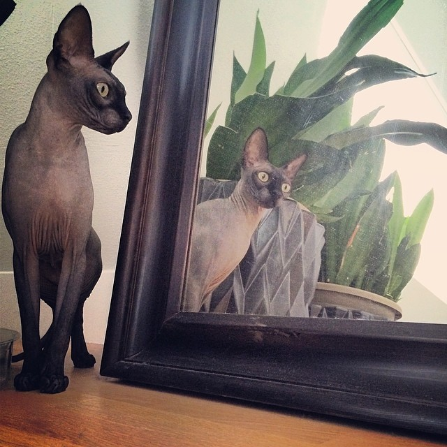 Sphynx cat looking in mirror